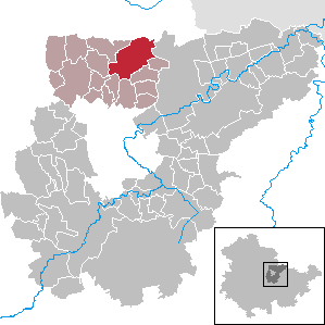 Buttelstedt in Thuringia - District Weimarer Land